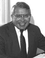 Photo of Thomas J. Galvin, American Librarian and Academic, former Director of the Library and Professor of Information Science at the University at Albany.